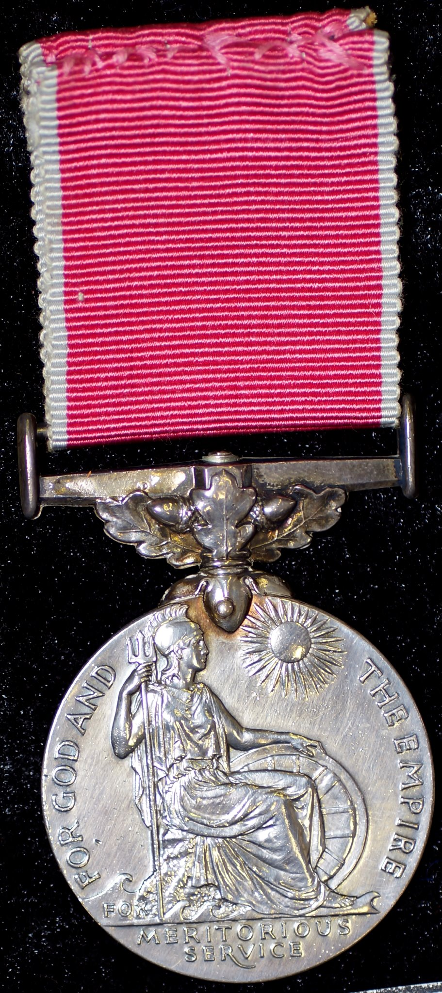 West Midlands Police Museum